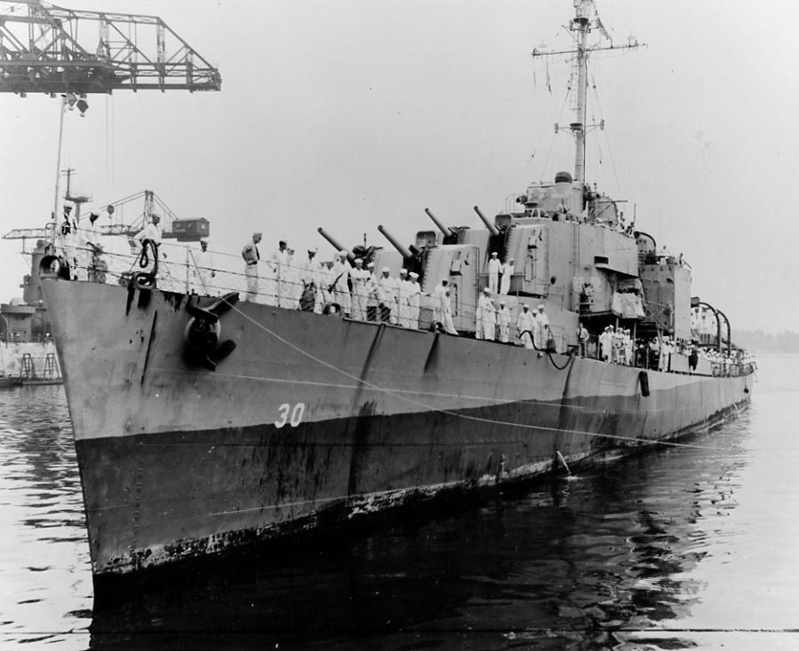 The U.S. Navy destroyer minelayer USS Shea (DM-30) at the Philadelphia Naval Shipyard, Pennsylvania (USA), in about 1946. Note her buckled hull and the missing fire control radar on the Mark 37 gun director.